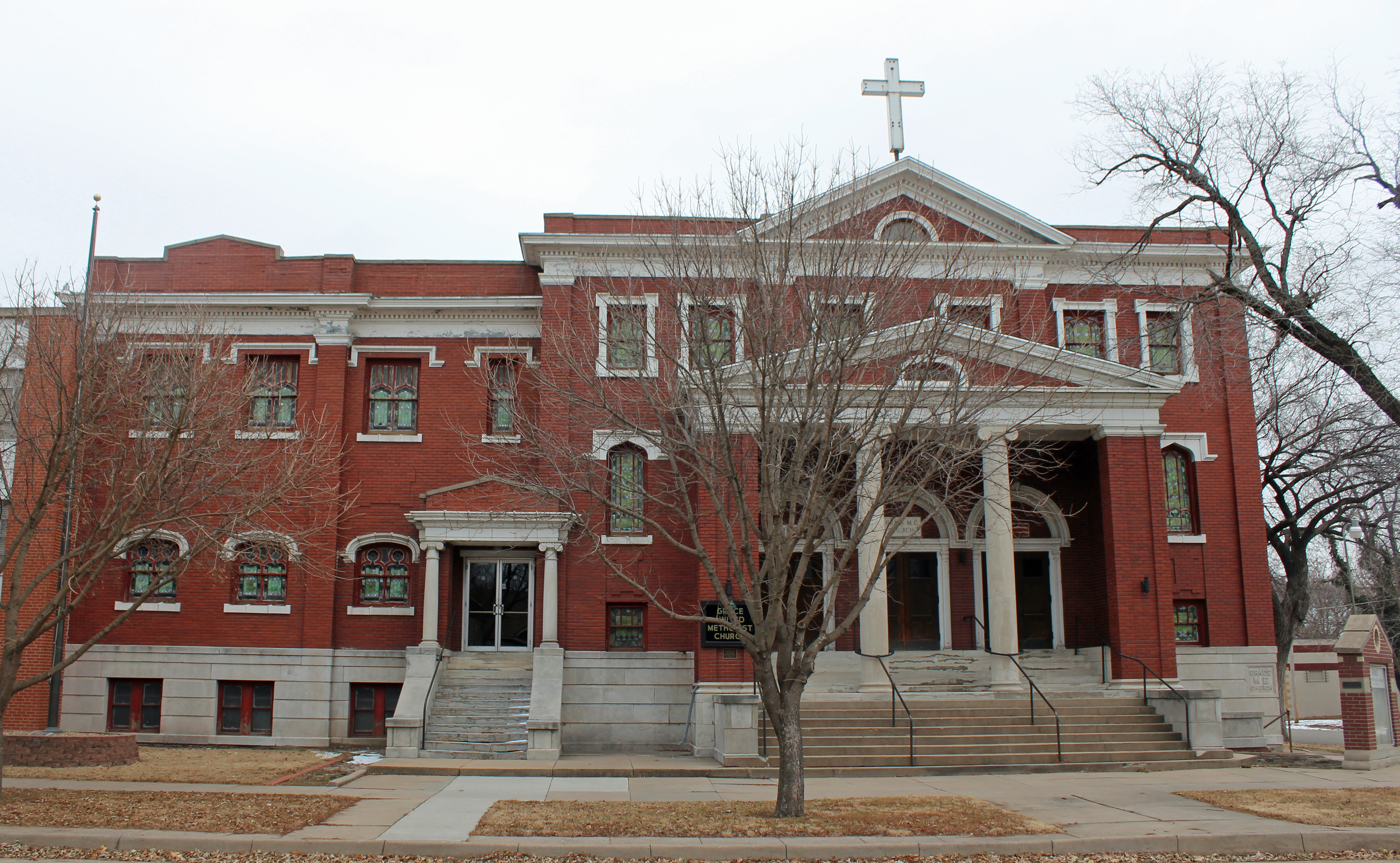 Grace Methodist Episcopal Church, located at 944 South Topeka in Wichita, Kansas. The property is listed on the National Register of Historic Places.